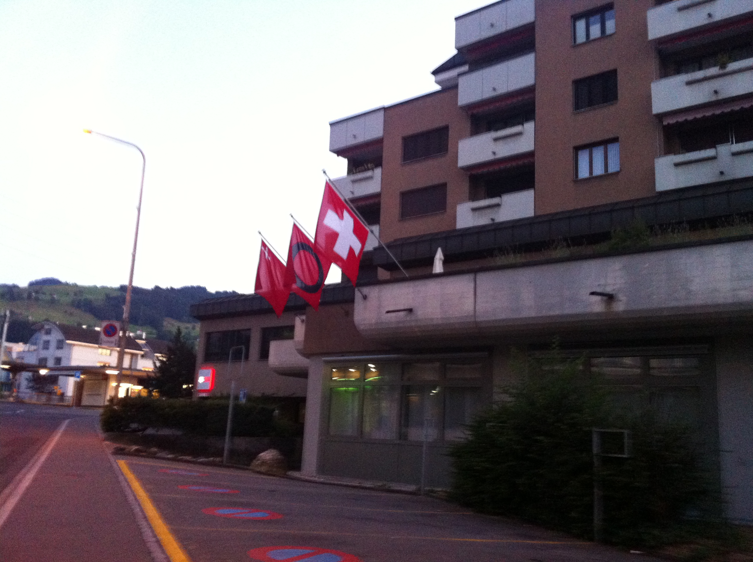 Bezirksgebäude March